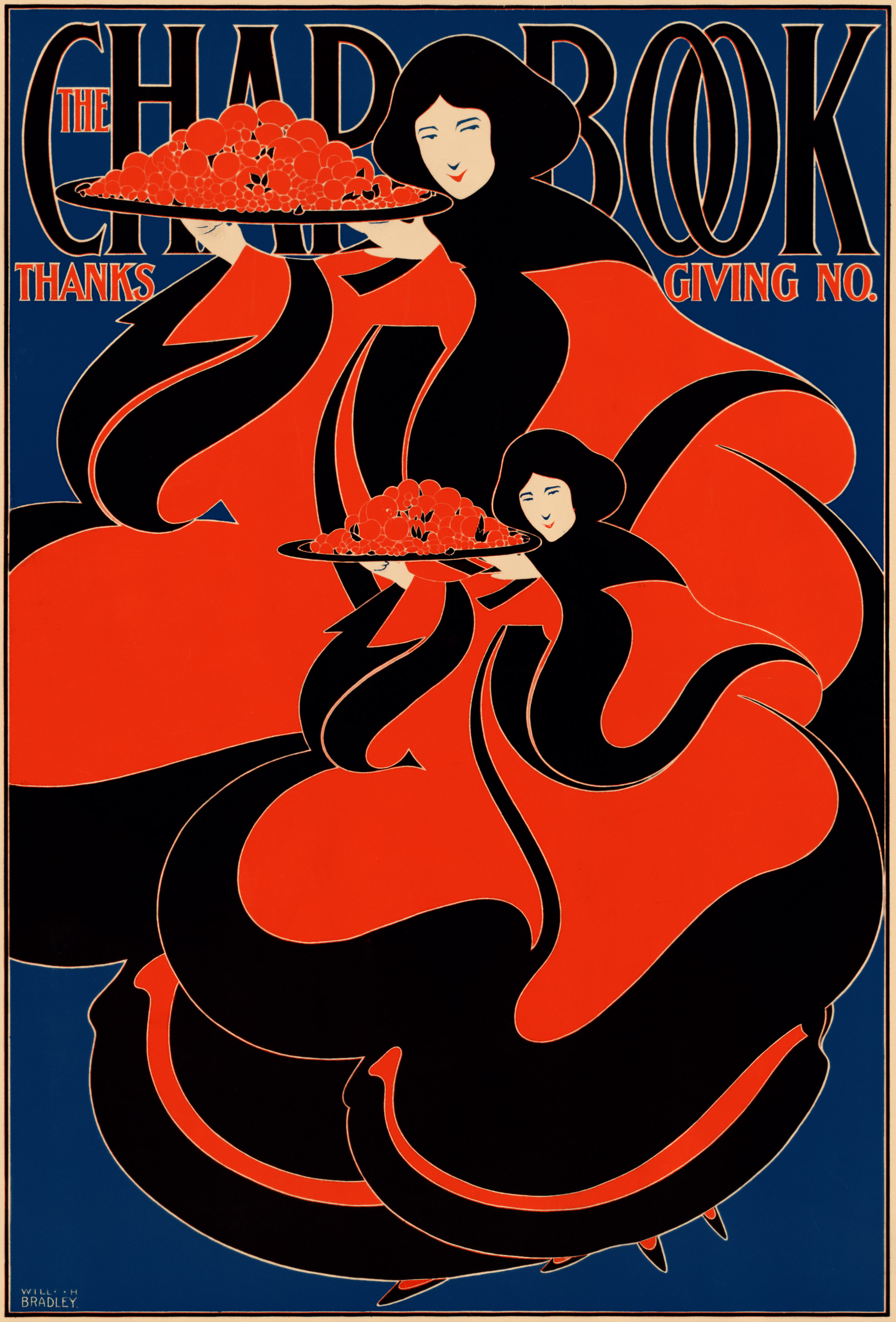 The Chap-Book Thanksgiving number. Art nouveau poster for the literary magazine The Chap-Book showing two women holding trays of food.